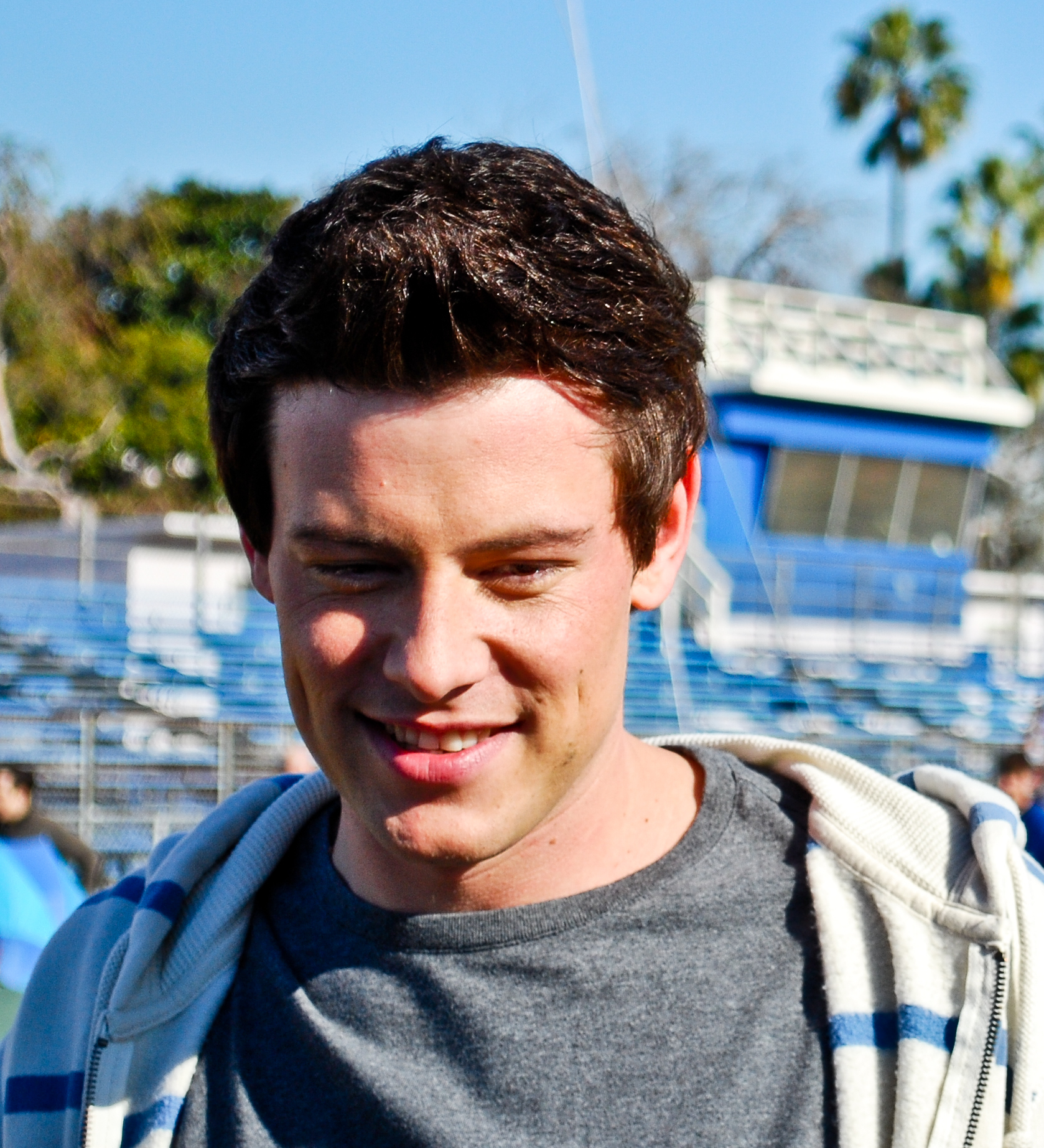 Monteith at Venice High School (Los Angeles, California), where Glee was filming a remake of Grease.